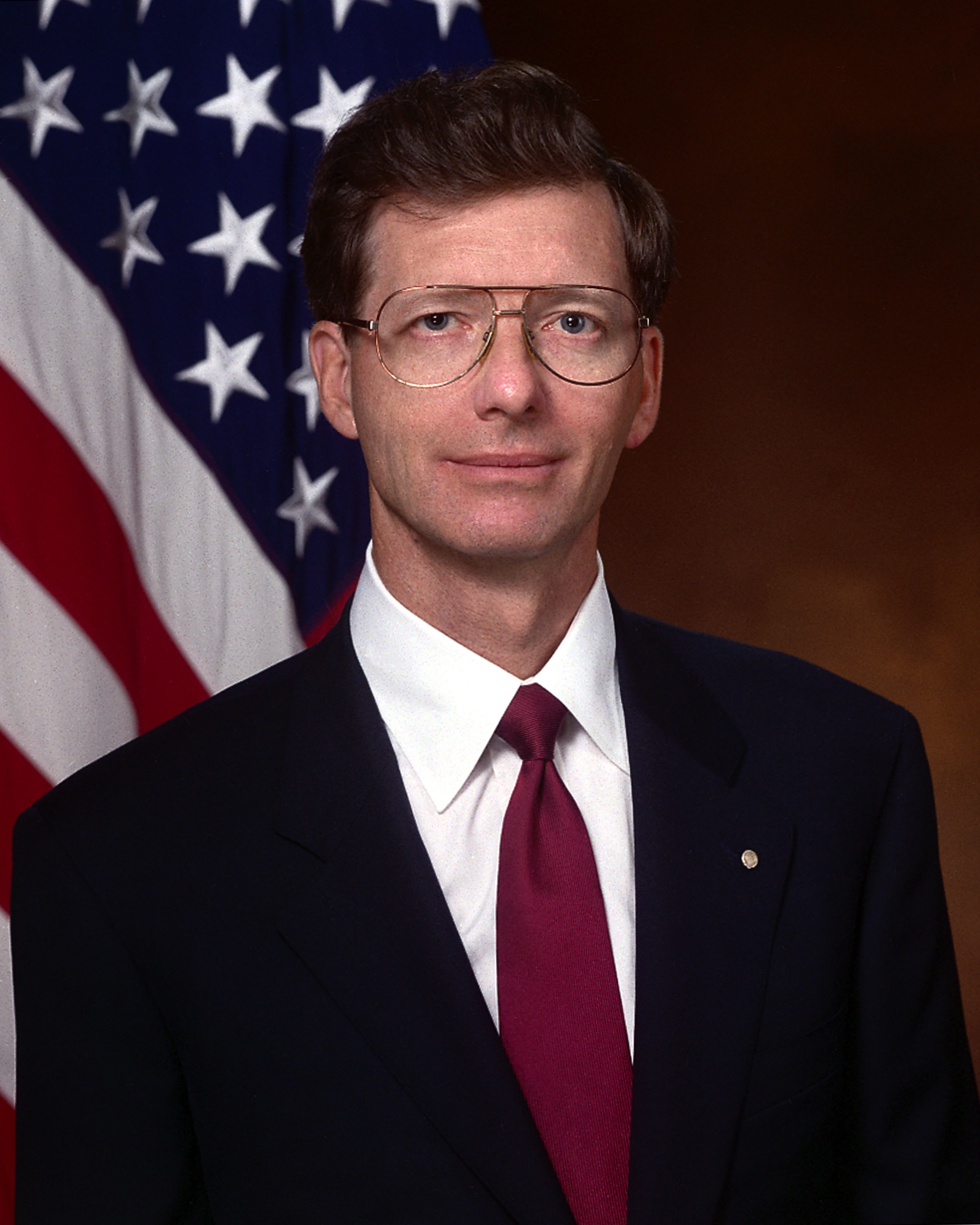 Paul J. Hoeper